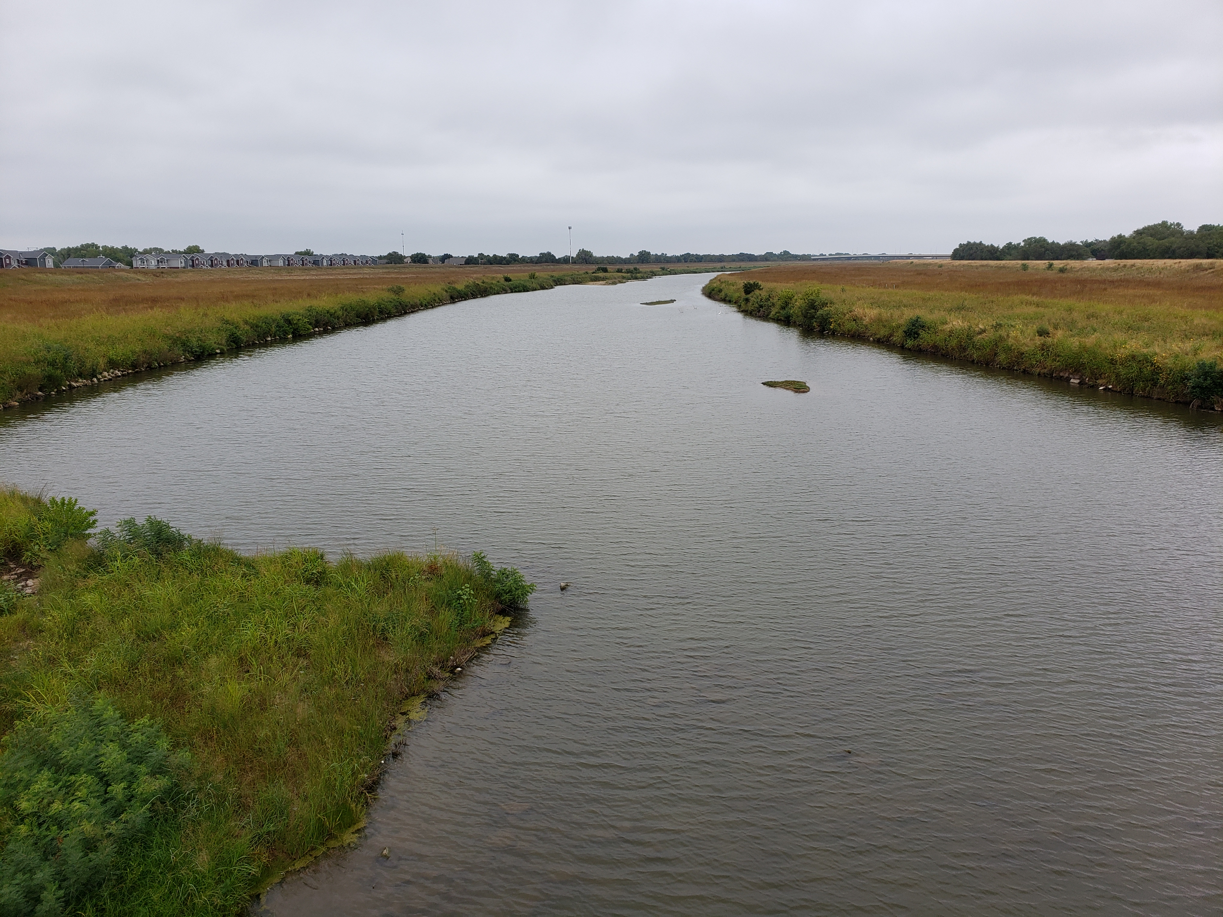 Upstream view of the Big Ditch from the Central Avenue bridge in Wichita, Kansas, USA